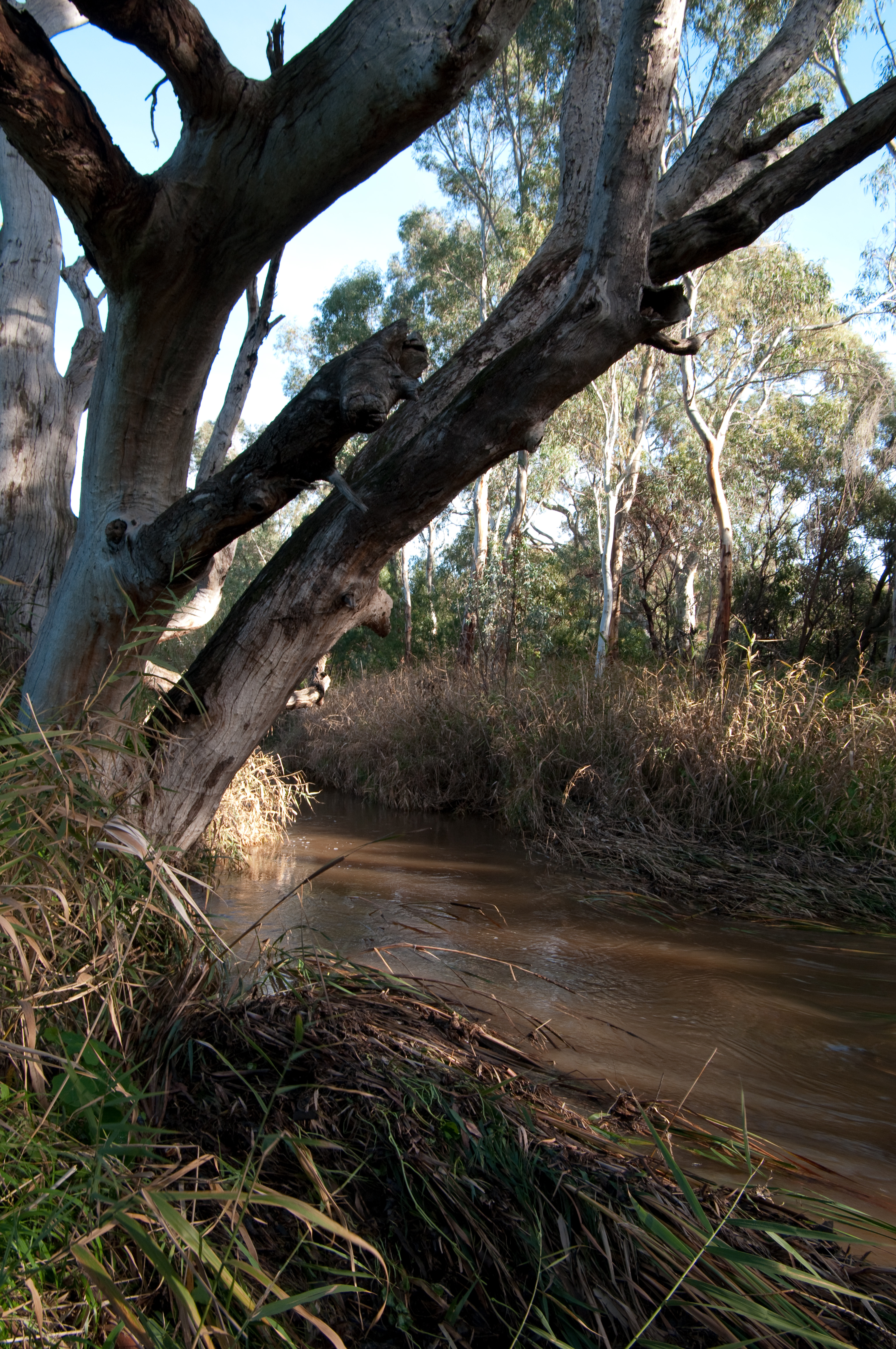 The Sturt River as it winds its way through Warriparinga in Adelaide, South Australia.